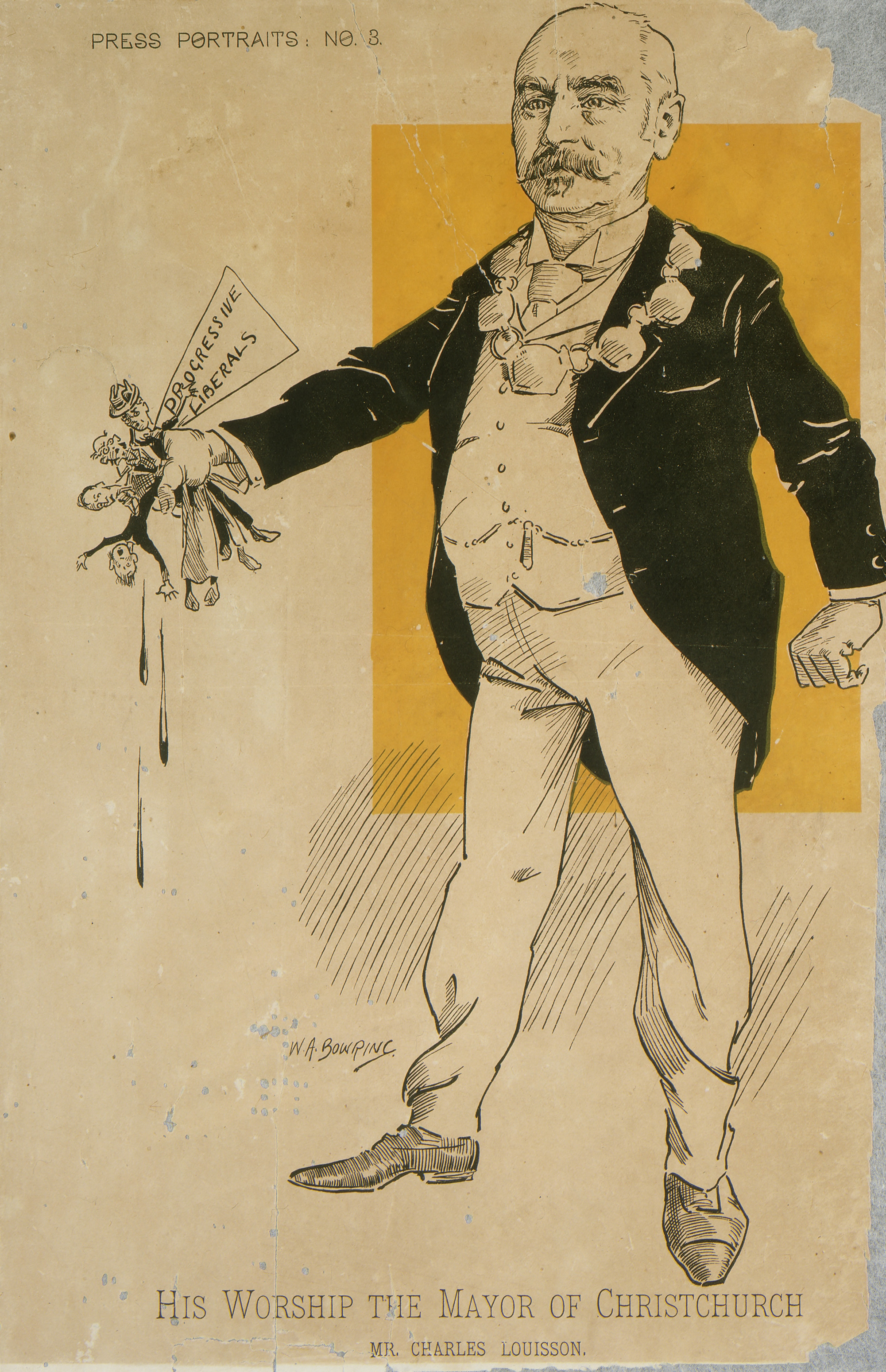 Caricature and full-length portrait of Charles Louisson, with mayoral chain. He is holding a bunch of bleeding progressive liberals in his outstretched hand.